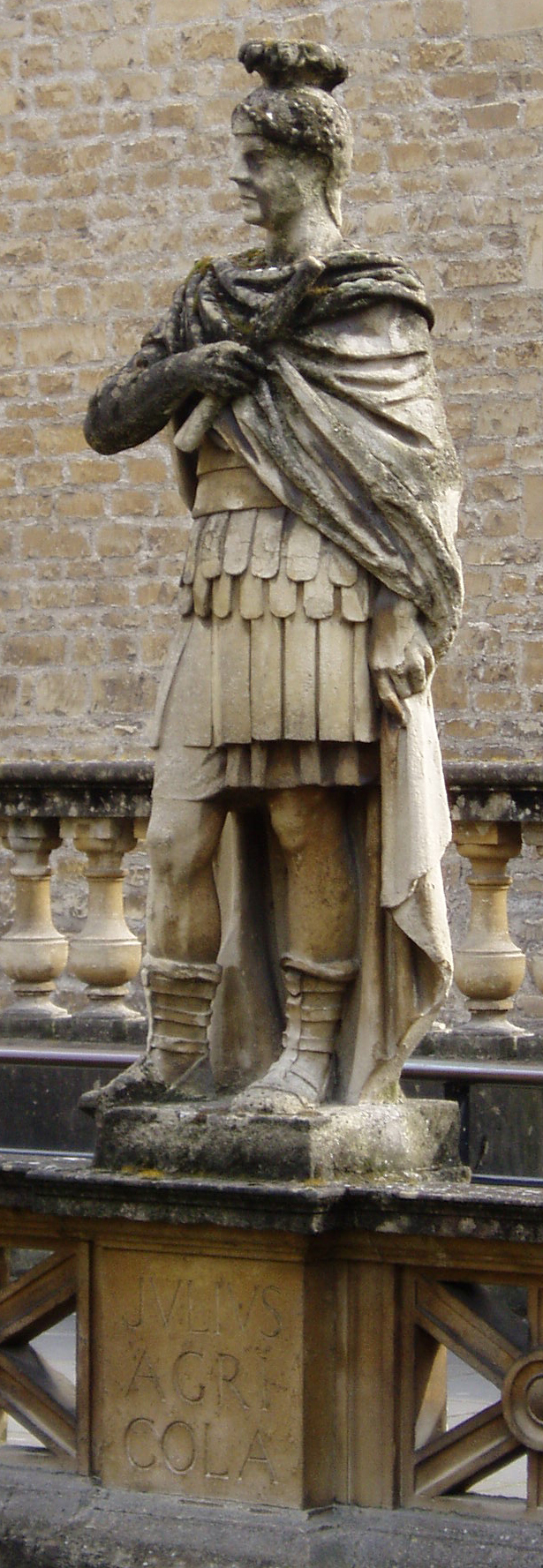 Photo of the statue of Gnaeus Julius Agricola erected in 1894 at the Roman Baths, taken 22 March 2006 by Ostrich